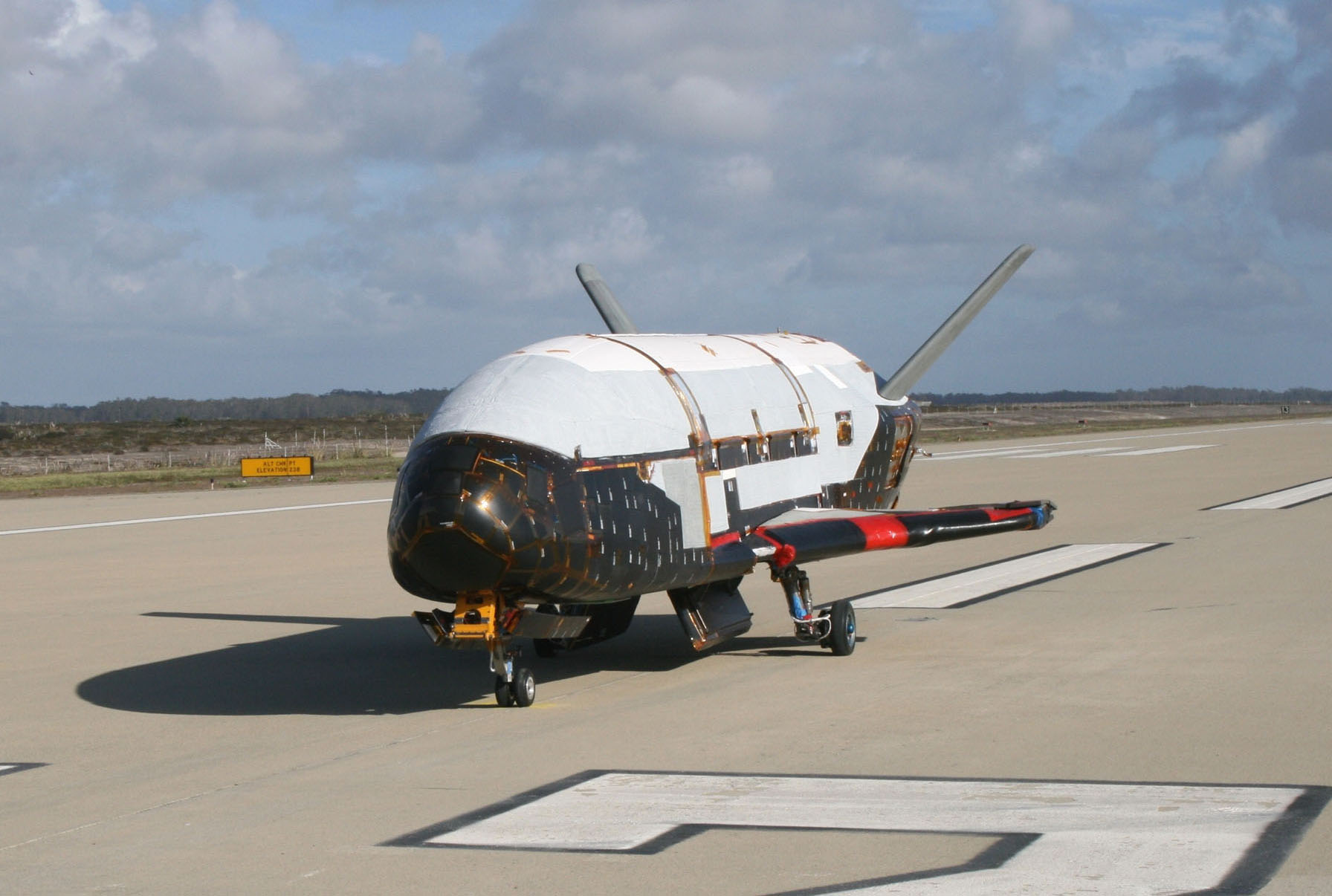 X-37B Orbital Test Vehicle was tested on the ground at Vandenberg Air Force Base in October 2007.